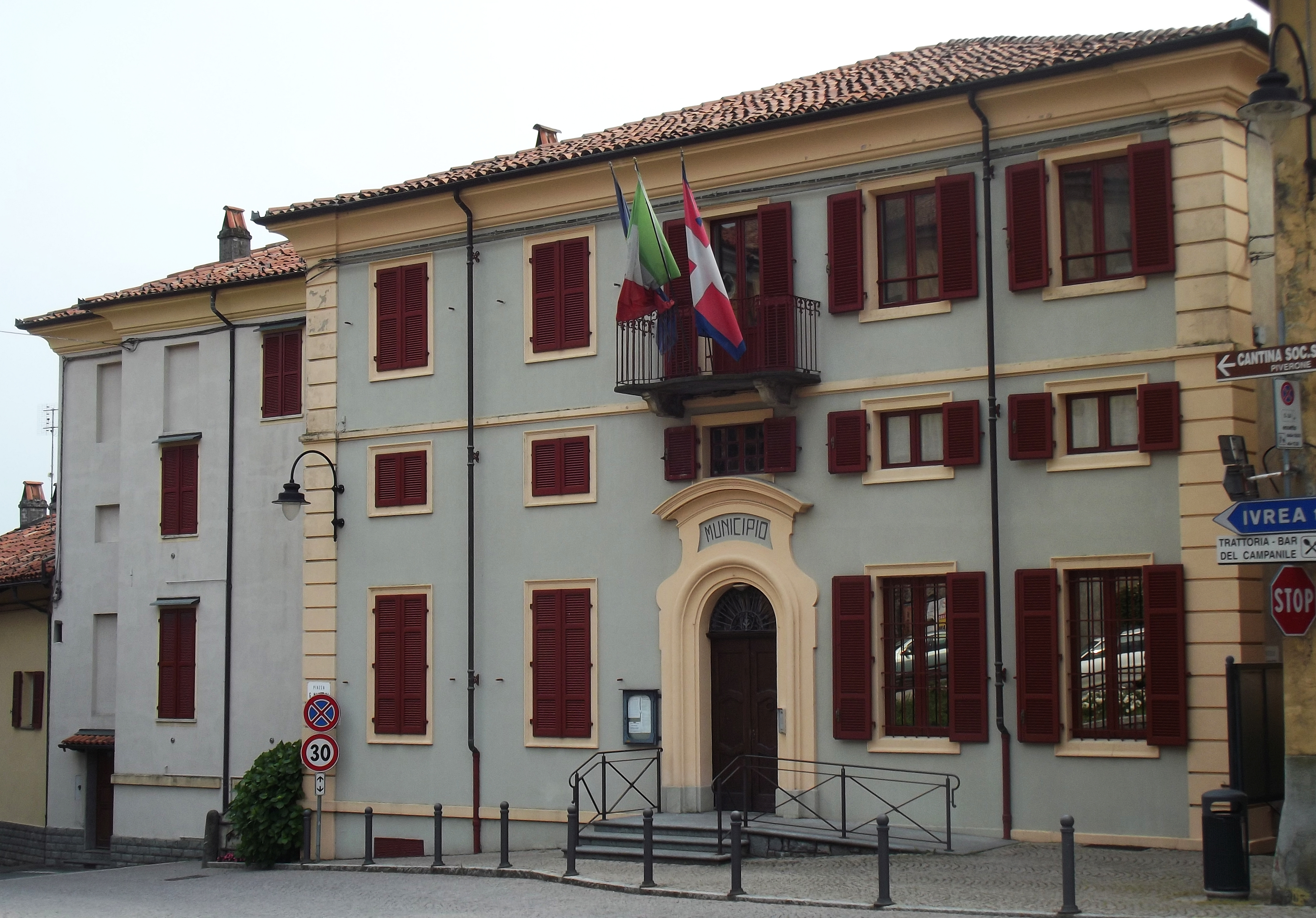 Piverone (TO, Italy): town hall